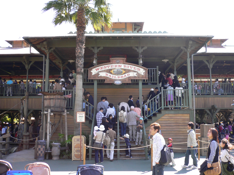 Western River Railroad (Tokyo Disneyland Attraction)